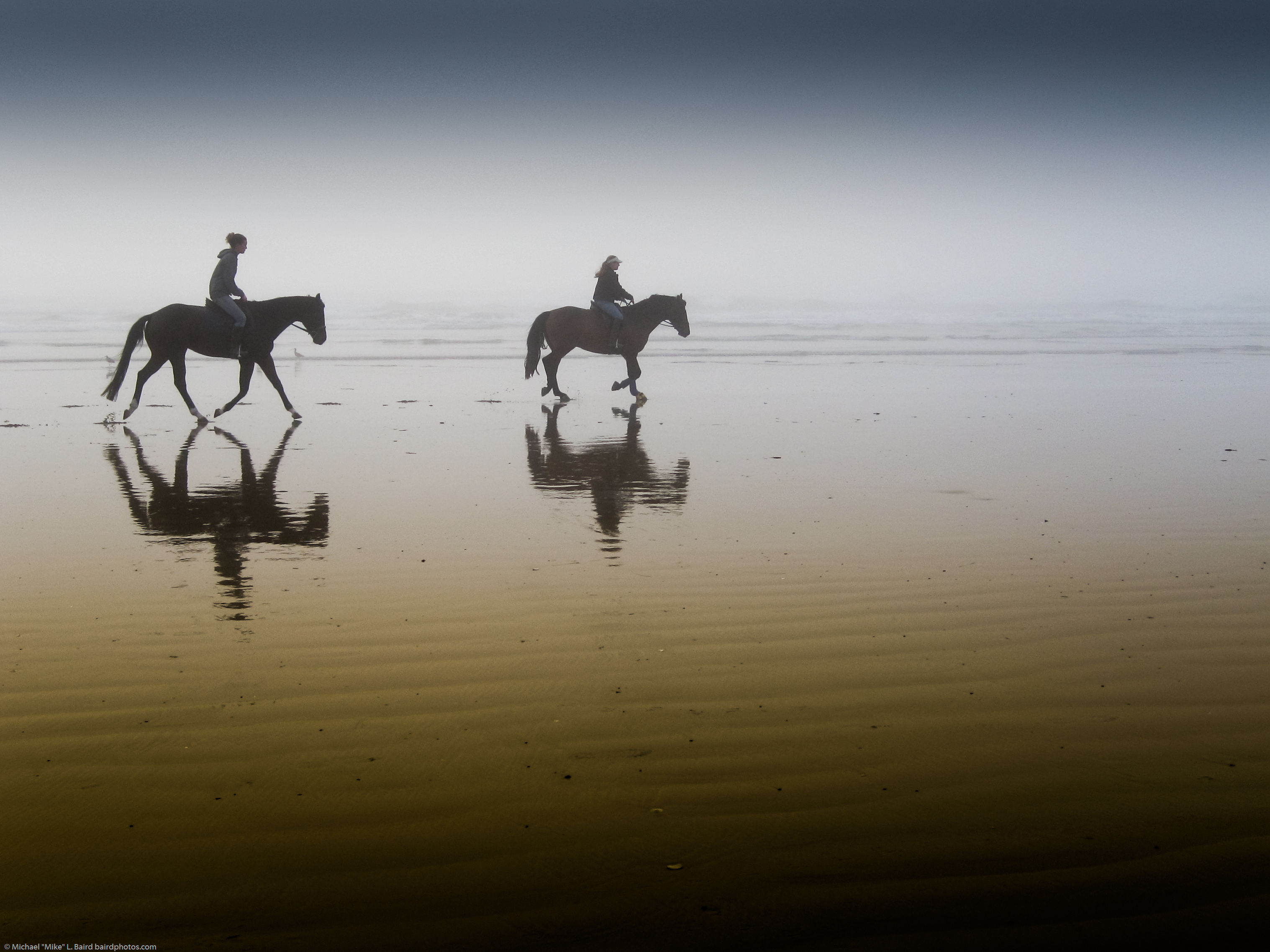 Two equestrian riders, girls on horseback, in low tide reflections on serene Morro Strand State Beach.